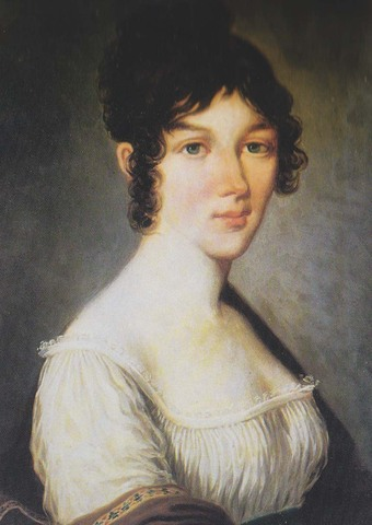 Rachela Römer